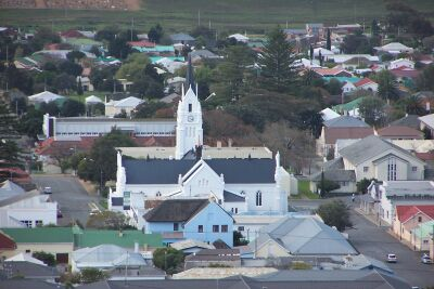 Dutch Reformed Church in Bredasdorp, South Africa